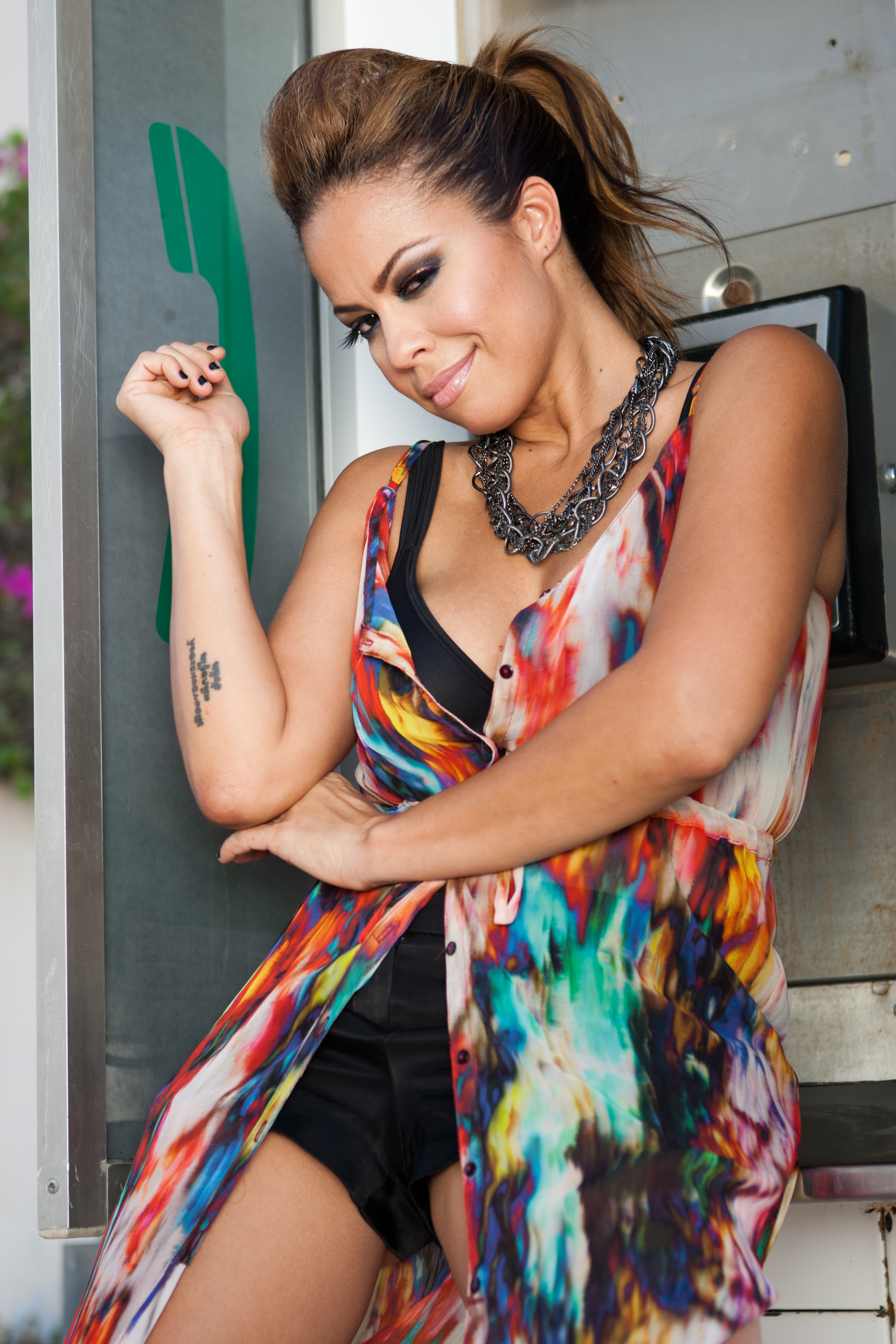 Fatiniza in Phone Booth in Dubai